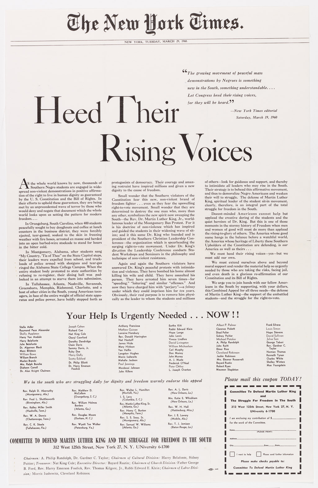 A full-page newspaper advertisement published in the New York Times on March 29, 1960. It was paid for by the Committee to Defend Martin Luther King and the Struggle for Freedom in the South. The advertisement was also used as an exhibit from the court cases Abernathy v. Patterson (1961) involving Martin Luther King Jr. and New York Times Co. v. Sullivan (1964).